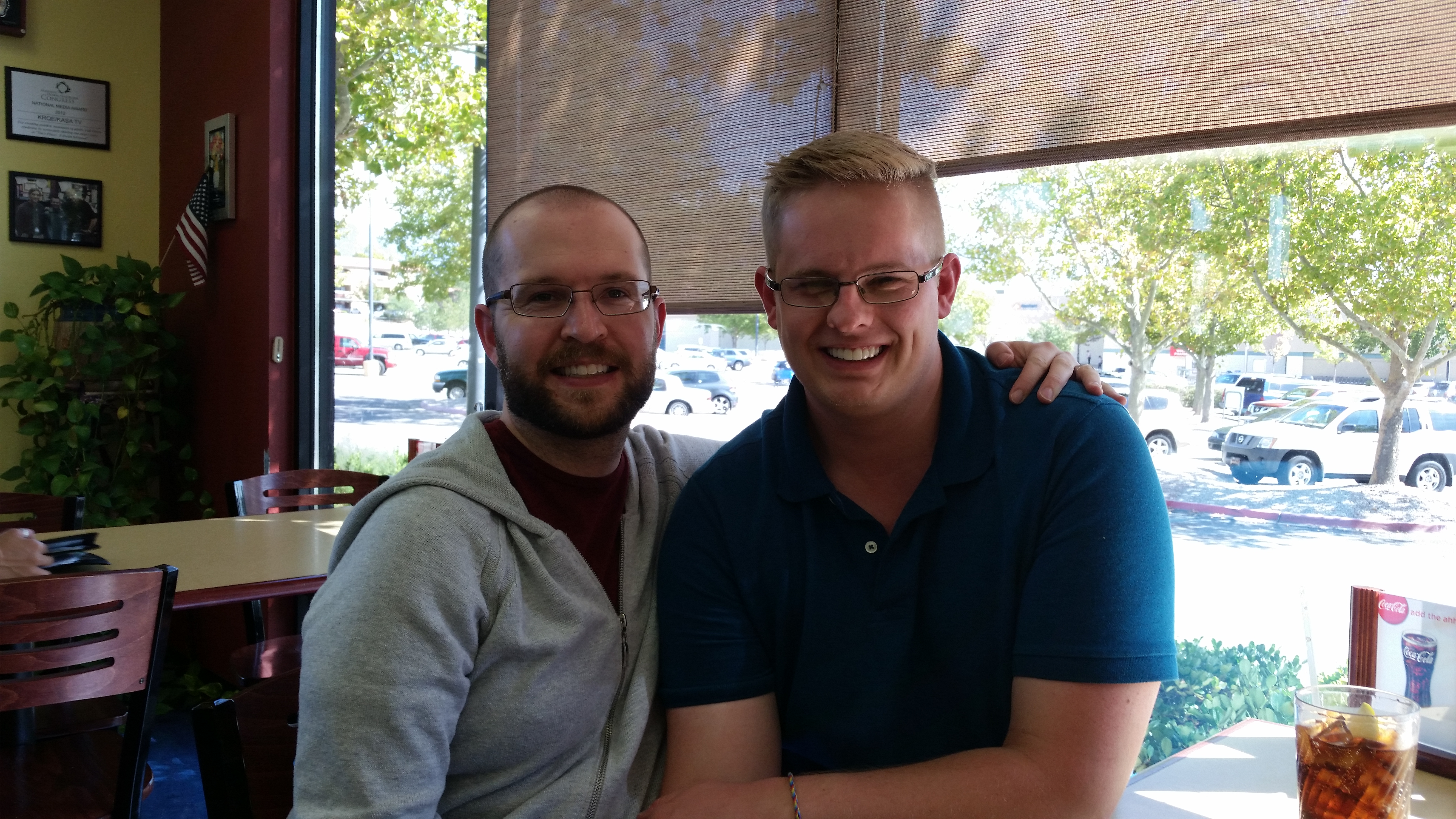 Two male patrons at Tim's Place restaurant in Albuquerque, New Mexico. Left: Robert W. Peterson, right: Konrad A. Juengling